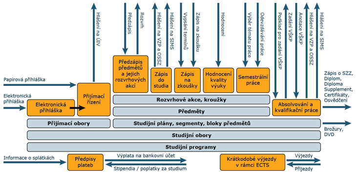 IS/STAG basic scheme.